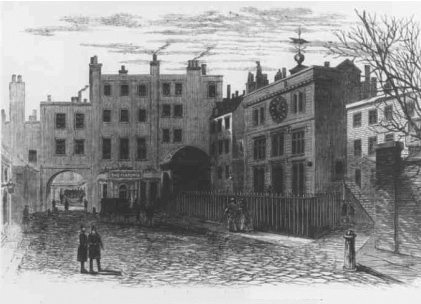 Old Scotland Yard Flickr data on 2011-08-13 Tags: Old picture, Scotland Yard License: CC BY-SA 2.0 User: paukrus Ruslan